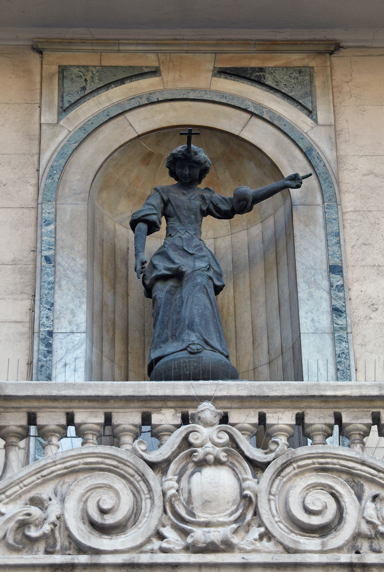 Àngel, copy of a sculpture designed by Rafael Plansó (1616) and created by Felip Ros (1618). Located in Plaça de l'Àngel, Barcelona, Spain.